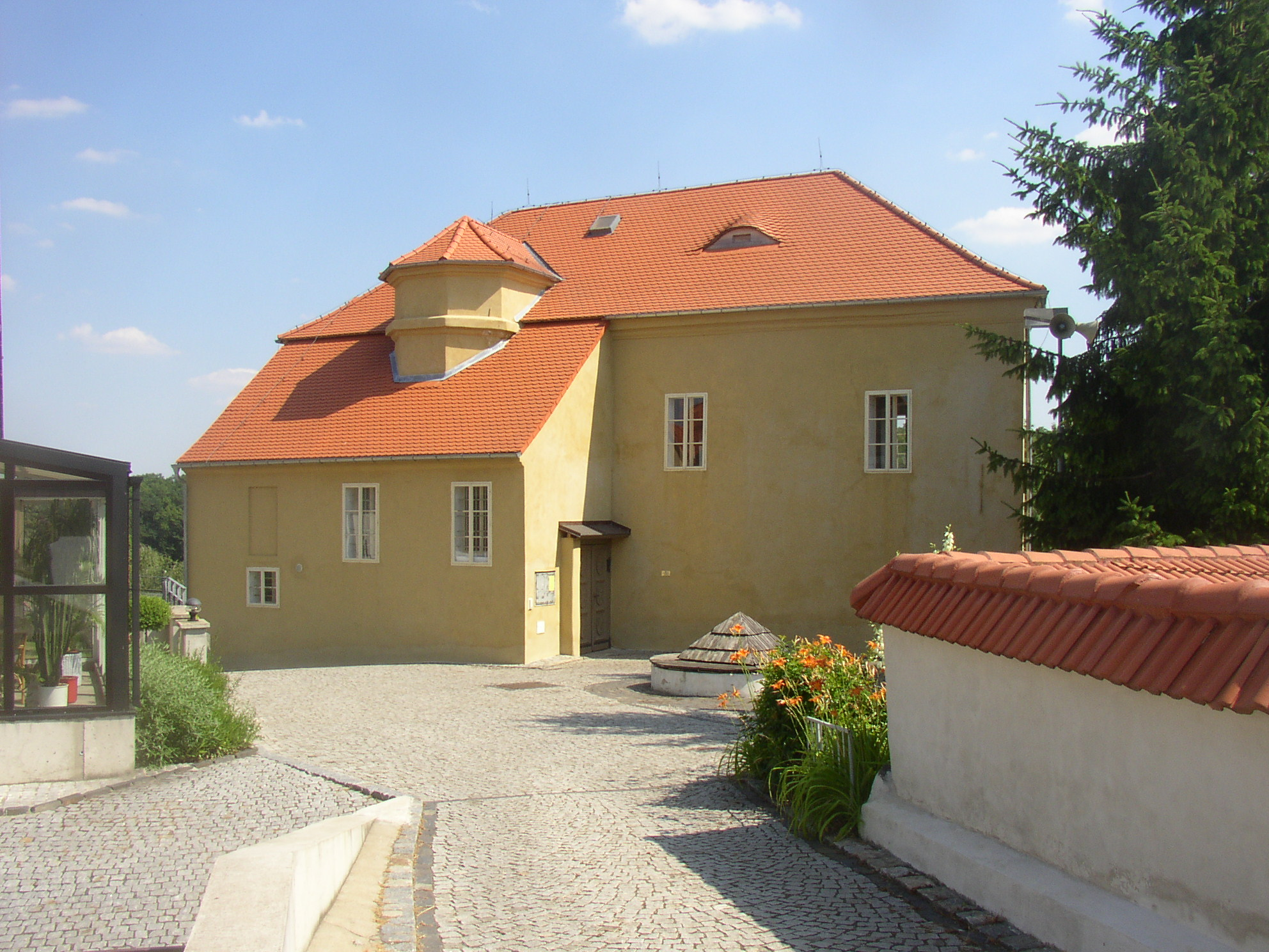 Brozany nad Ohří, Litoměřice District, Czech Republic. Brozany Castle, originally a Gothic fort from early 15th century, rebuilt wizh lavish Renaissance decoration by Zikmund Brozanský of Vřesovice in 1560s and by Jan Zbyněk Zajíc of Hazmburk in 1600s. Set in fire by Saxon army in 1631, after another fire in 1880 lowered by two floors. Nowadays in property of the town, opened for tourists after restoration in 2005.